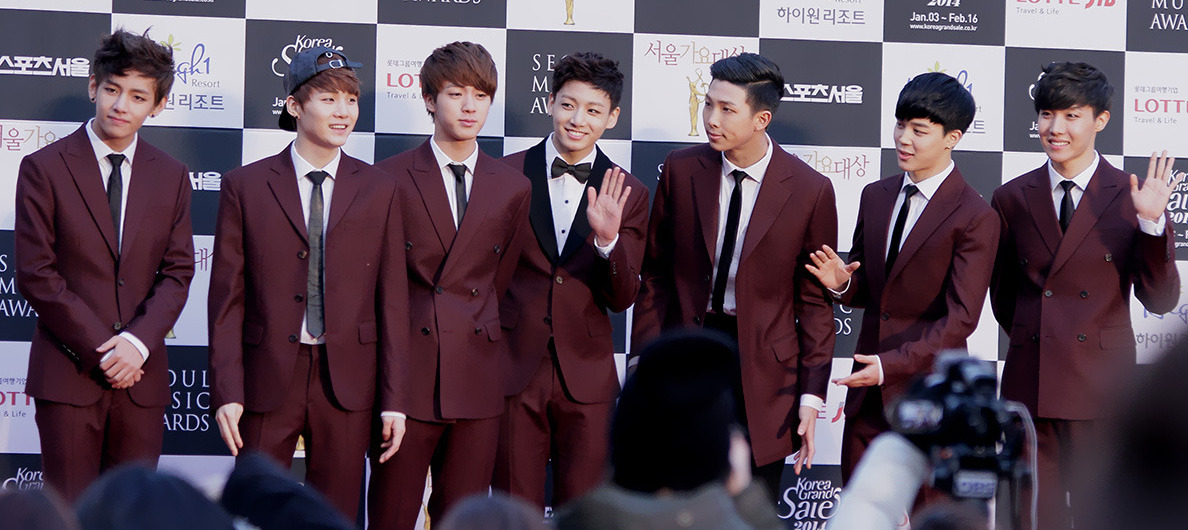 Bangtan Boys at Seoul Music Awards on January 23, 2014. From left to right: V, Suga, Jin, Jungkook, Rap Monster, Jimin and J-Hope.